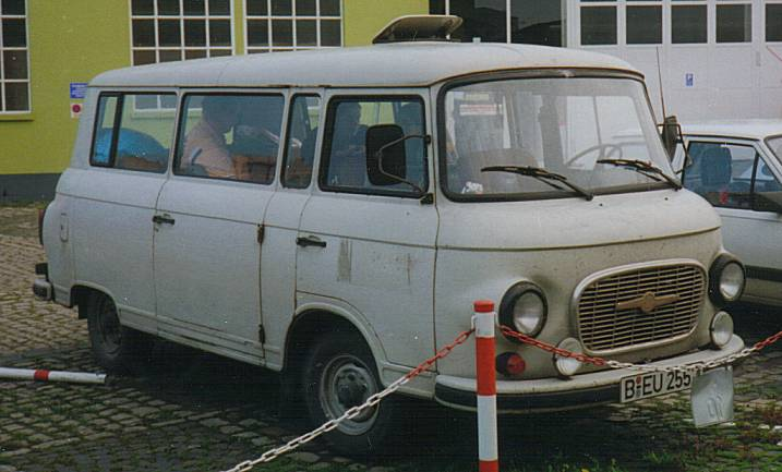 Barkas B1000 KB - minibus